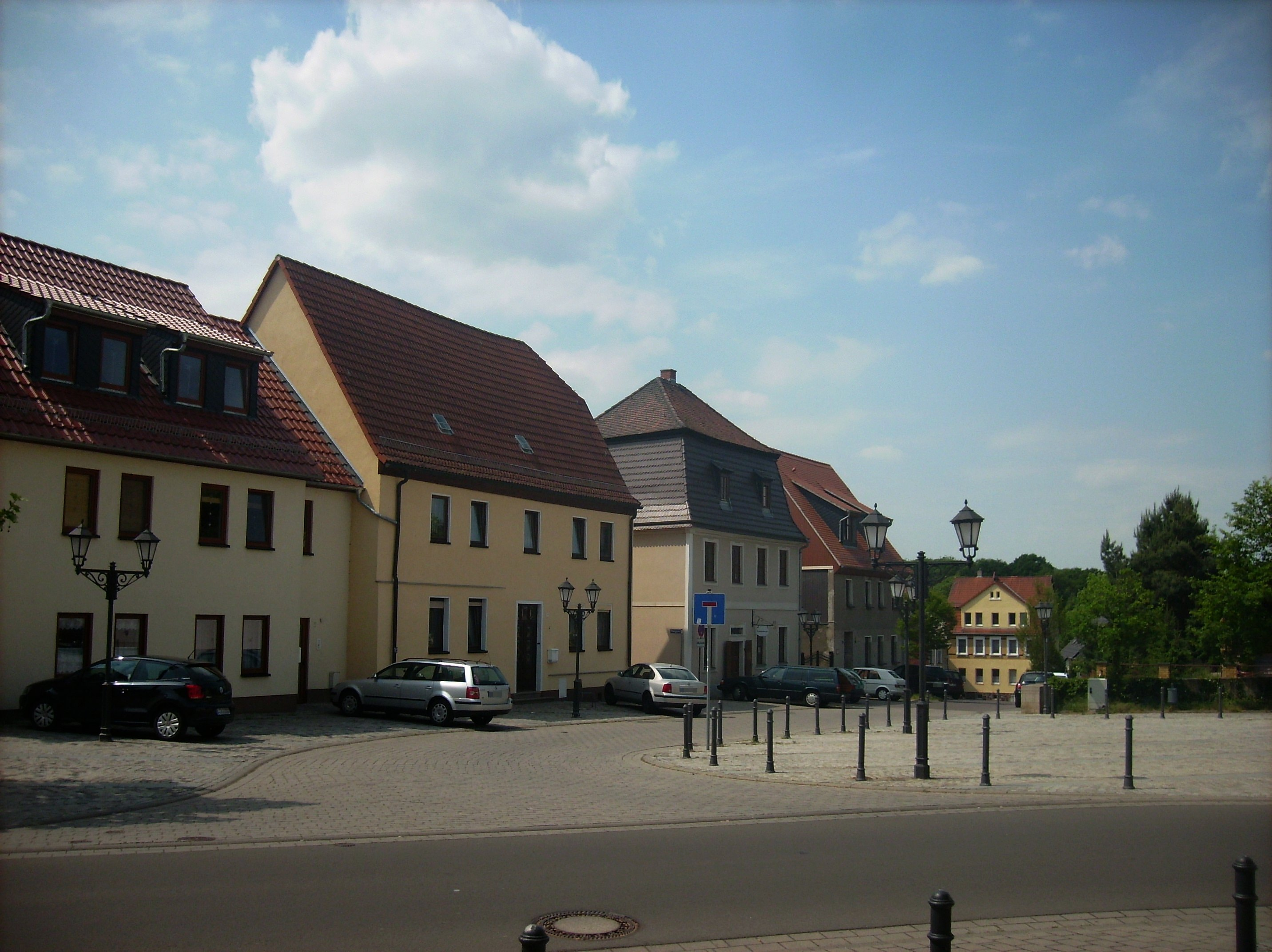 Market square in Zwenkau (Leipzig district, Saxony)